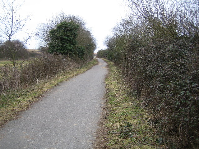 National Cycle Network Route 23. The route here follows the track bed of the long dismantled Sandown to Newport railway. Viewed looking westwards from Langbridge village, which used to have a station on the railway.